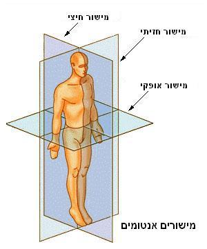 Nice picture of the planes of human anatomy